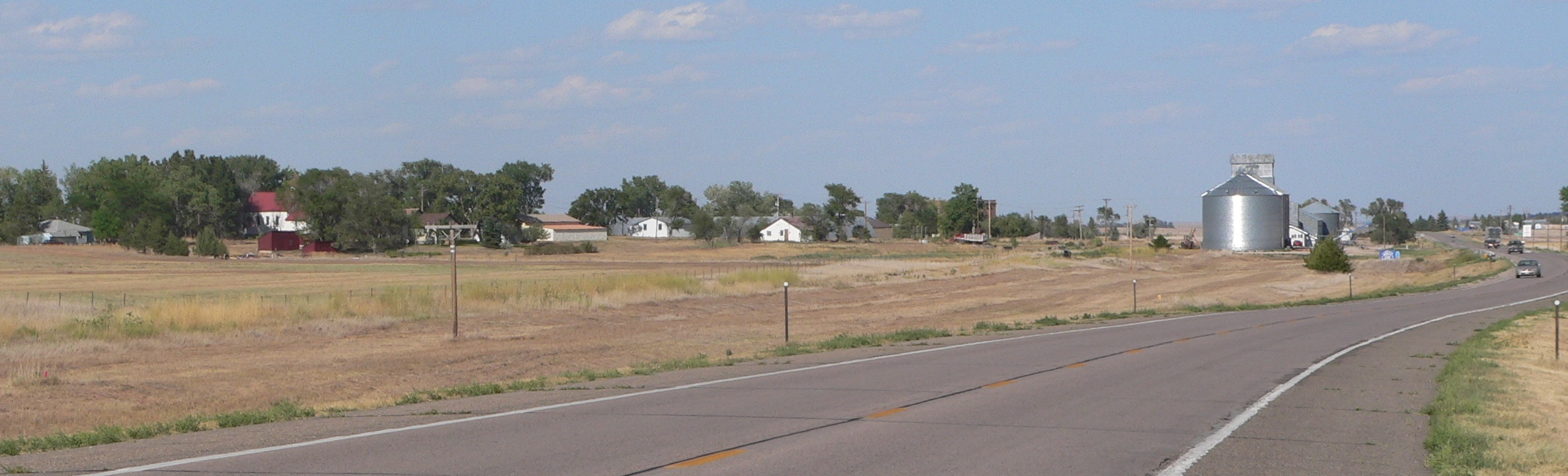 Clinton, Nebraska; seen from the southwest along U.S. Highway 20.